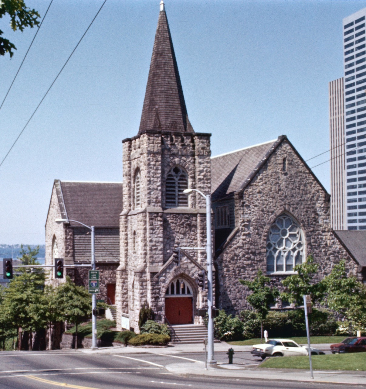 Trinity Parish (Episcopal) Church in Seattle in 1982. Since the late 1980s, the view from this angle – looking west across the intersection of 8th Avenue and James Street – has included two downtown skyscrapers in the background, but they had not yet been built at the time of this photo.